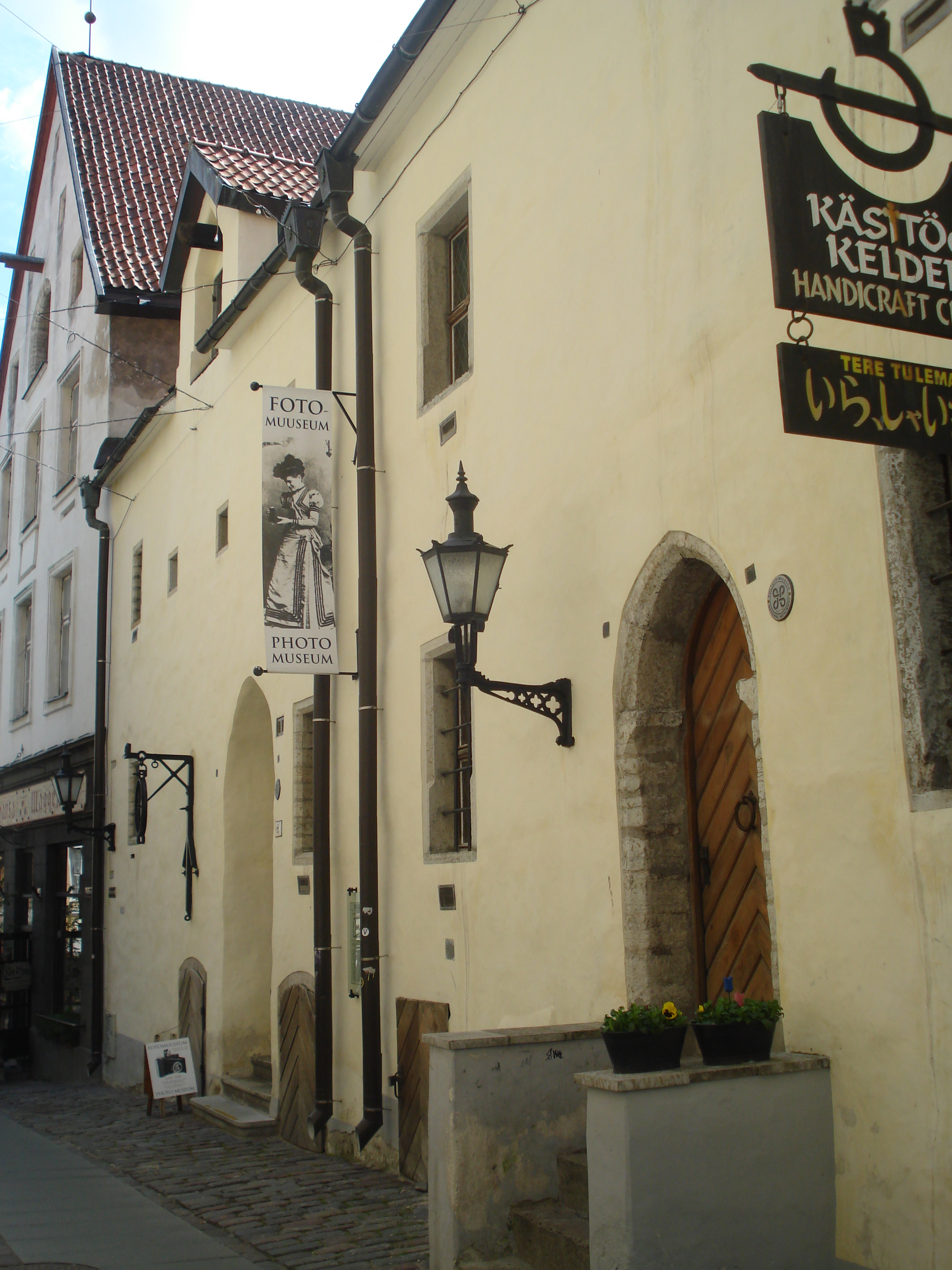 The Photo Museum (a branch museum of the Tallinn City Museum) in the former Town Council's Prison in Tallinn. Raekoja Street 4/6